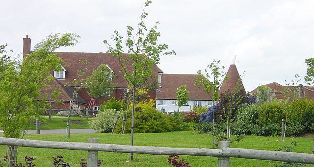 Demelza House Children's Hospice. It is increasingly common to see brand new buildings designed to look like old farm buildings, this one pretends to be an oast and barn.